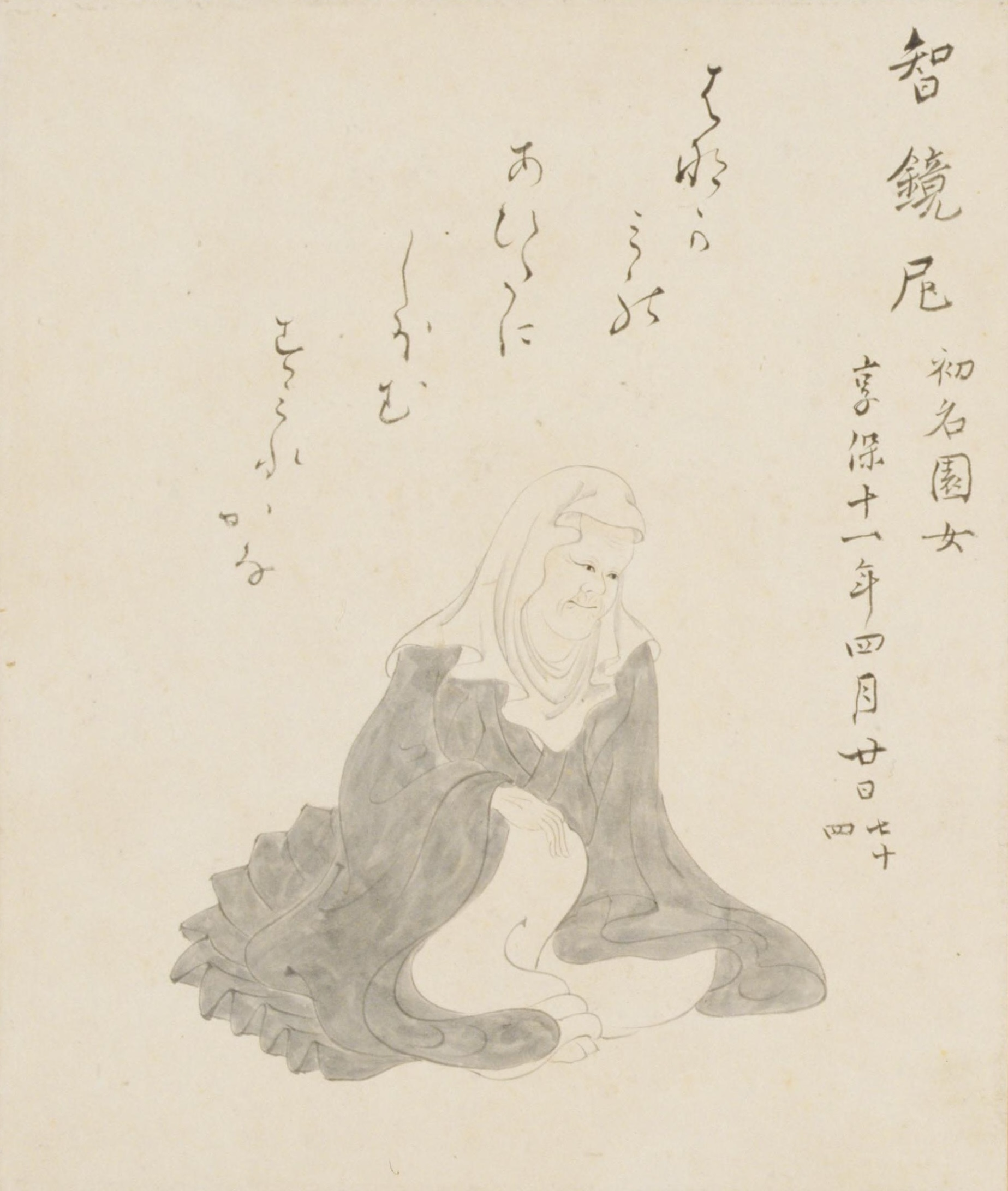 Japanese waka poetess Shiba Sonome (1664-1726), from the Collection of portraits